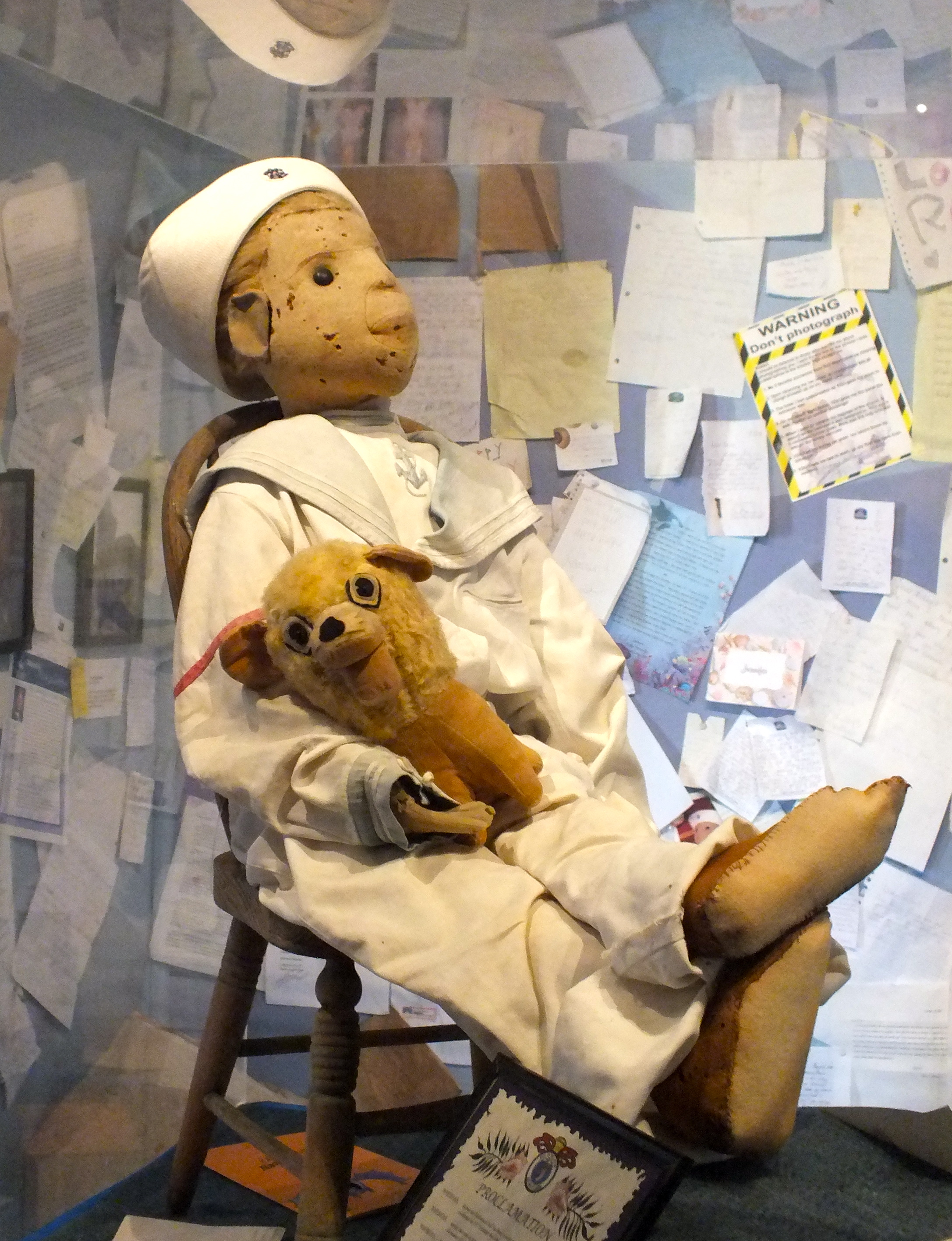 Related Link